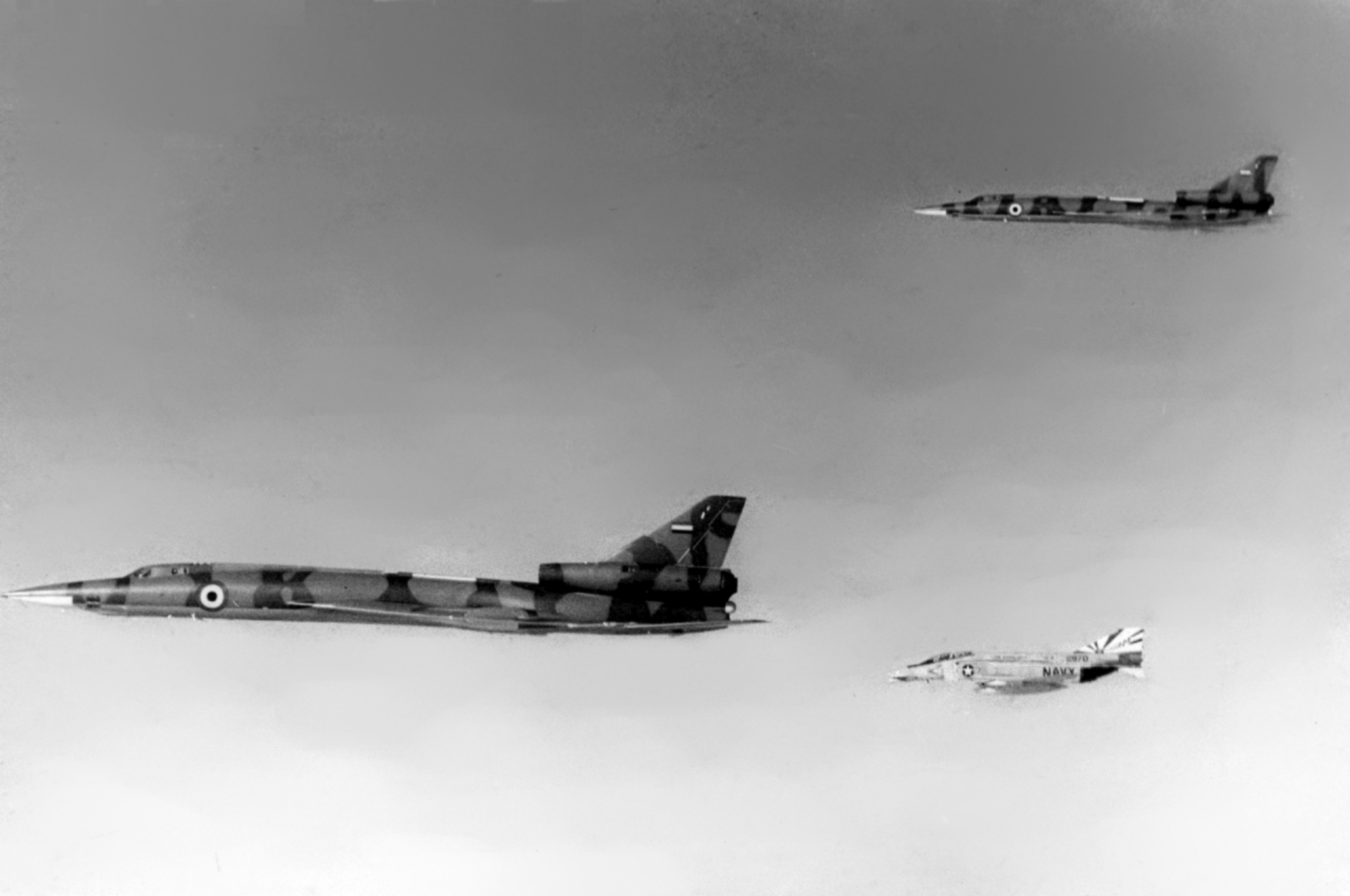 A U.S. Navy McDonnell F-4N Phantom II (BuNo 152970) from Fighter Squadron VF-111 Sundowners over the Mediterranean Sea intercepts two Soviet-built Tupolev Tu-22 "Blinder" bombers being delivered to Libya, circa in April 1977. VF-111 was assigned to Carrier Air Wing 19 aboard the aircraft carrier USS Franklin D. Roosevelt (CV-42) for a deployment to the Mediterranean Sea from 4 October 1976 to 21 April 1977.